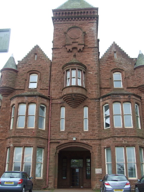 Ravenscraig Hospital The main entrance to the older part of the hospital complex.